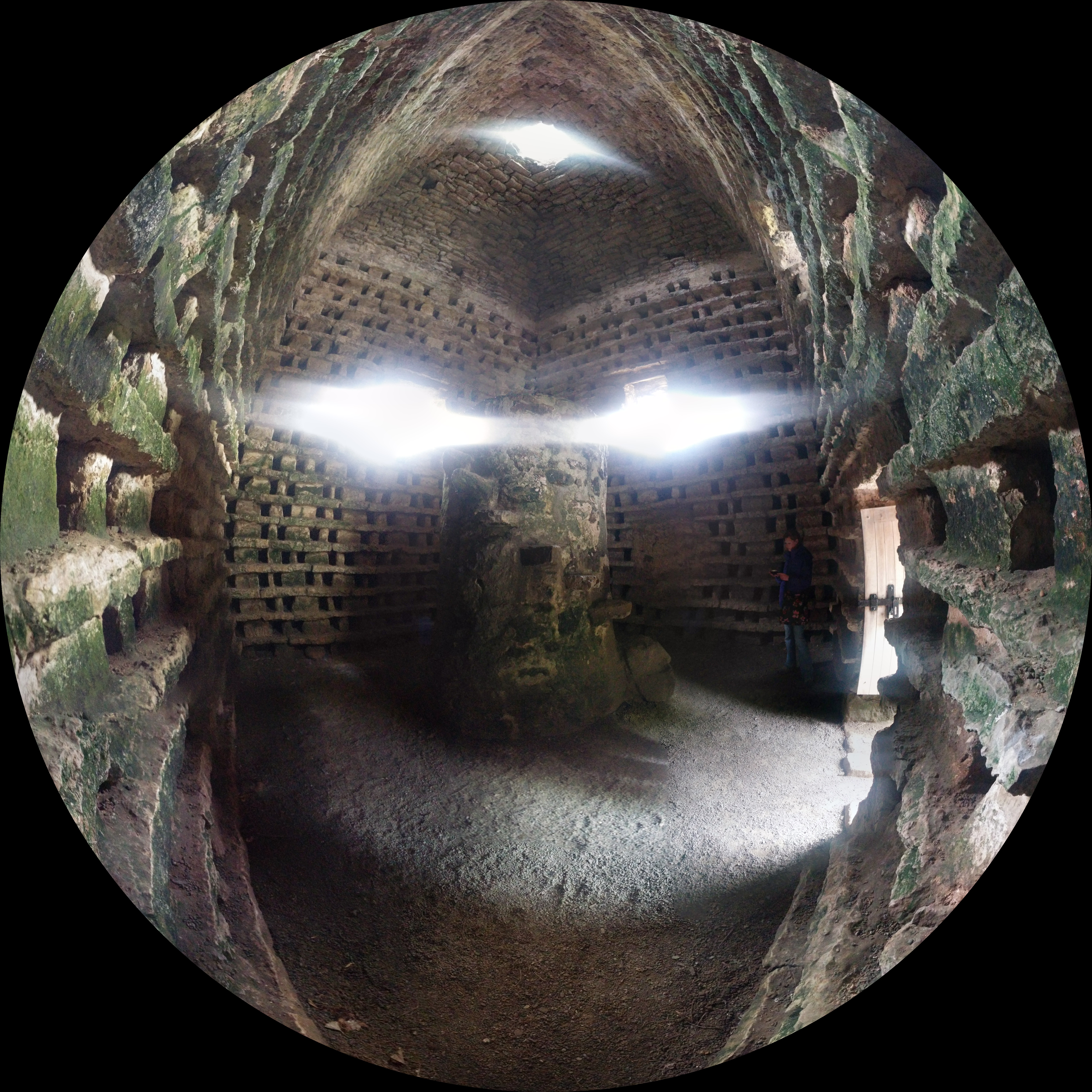 The interior of Penmon Priory Dovecot showing its central pillar; Beaumaris, Ynys Mon